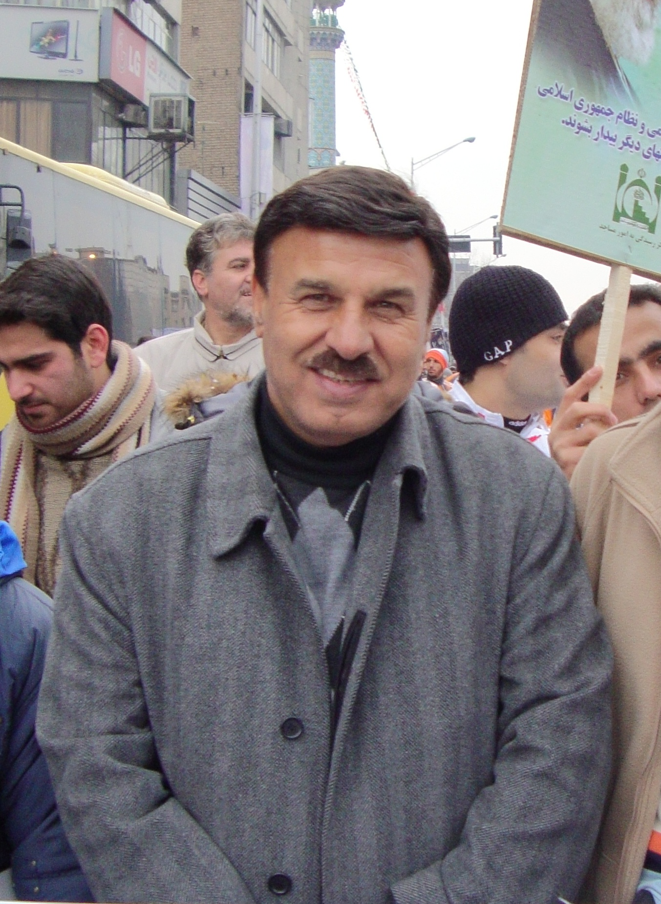 Parviz Mazloomi, former Iranian football player, at the 32nd anniversary of Islamic revolution rally